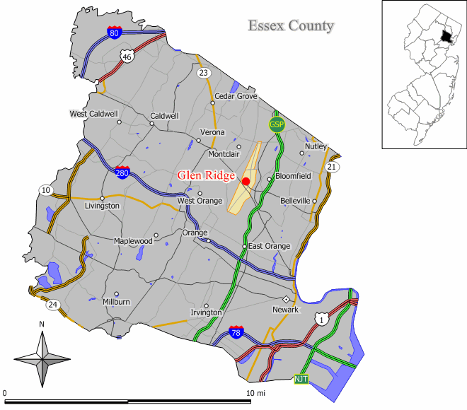 Source: Jim Irwin Original work by Jim Irwin, December 2005.